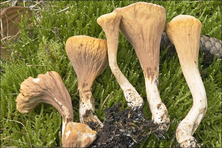 Fruit bodies of the fungus Clavariadelphus truncatus (Quel.) Donk. Specimen collected and photographed in Zadnjica Valley, East Julian Alps, Posočje, Slovenia. See Mushroom Observer page for extensive collection notes.